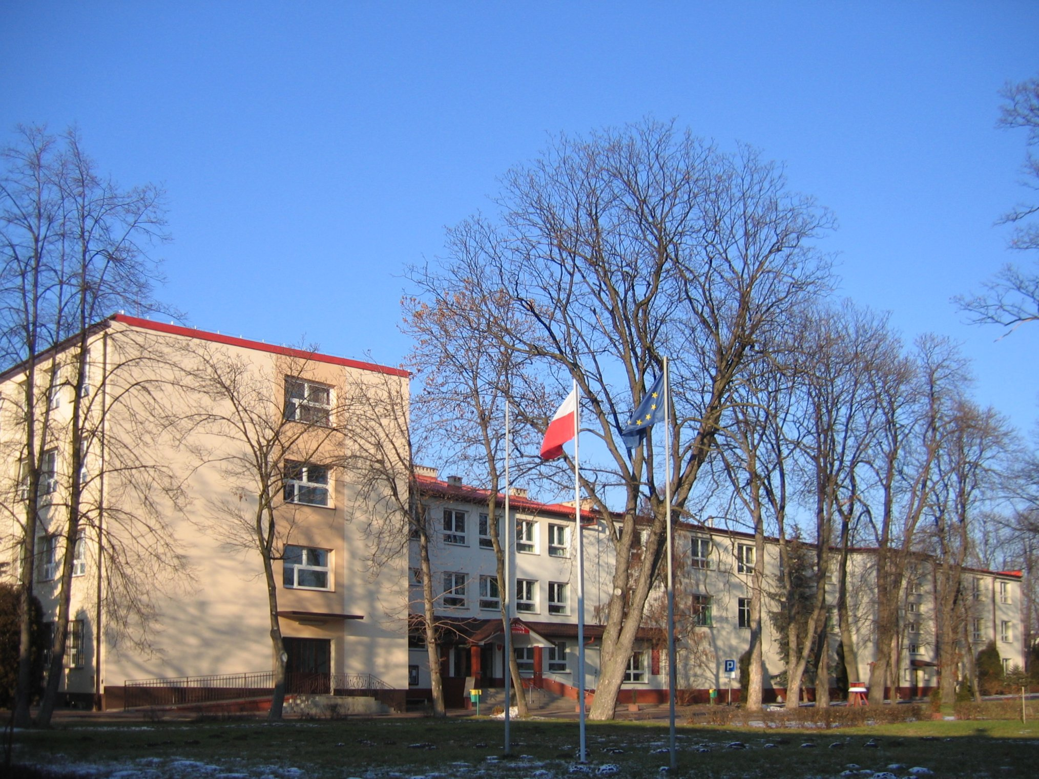 Secondary, evening and vacational school in Staszów, Poland.